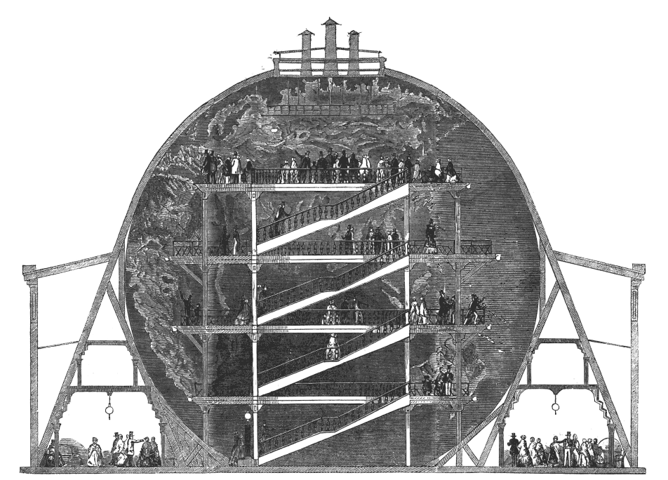 Sectional view of Wyld's Great Globe, which stood in Leicester Square, London 1851–62